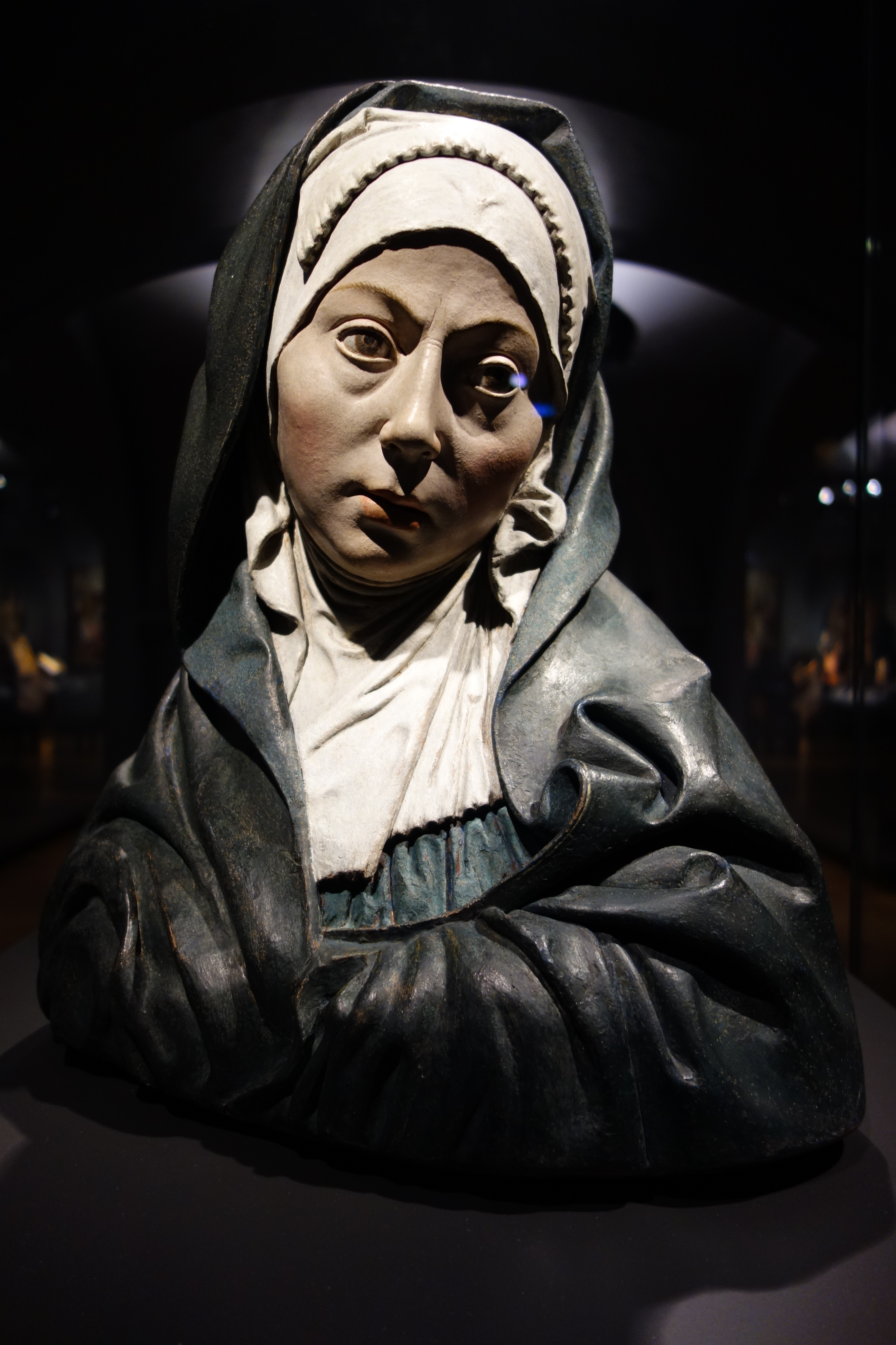 Mater Dolorosa (Our Lady of Sorowes) in the Rijksmuseum Amsterdam. This buste is made, between 1507 and 1510, of teracotta for Margaret of Austria. The buste is attributed to Pietro Torrigiano. Parts of the polychrome are original.